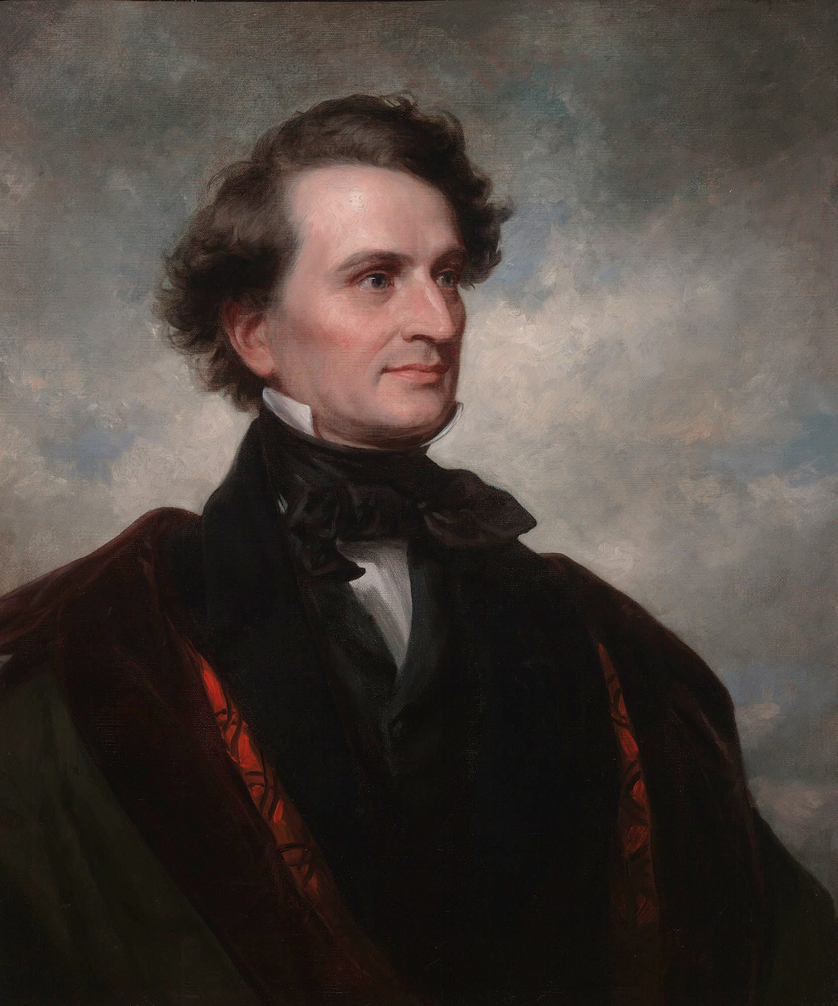 "James Dwight Dana," oil on canvas, portrait by the American artist Daniel Huntington. 29 7/8 in. x 25 1/8 in. Courtesy of the Yale Art Gallery, Yale University, New Haven, Conn.